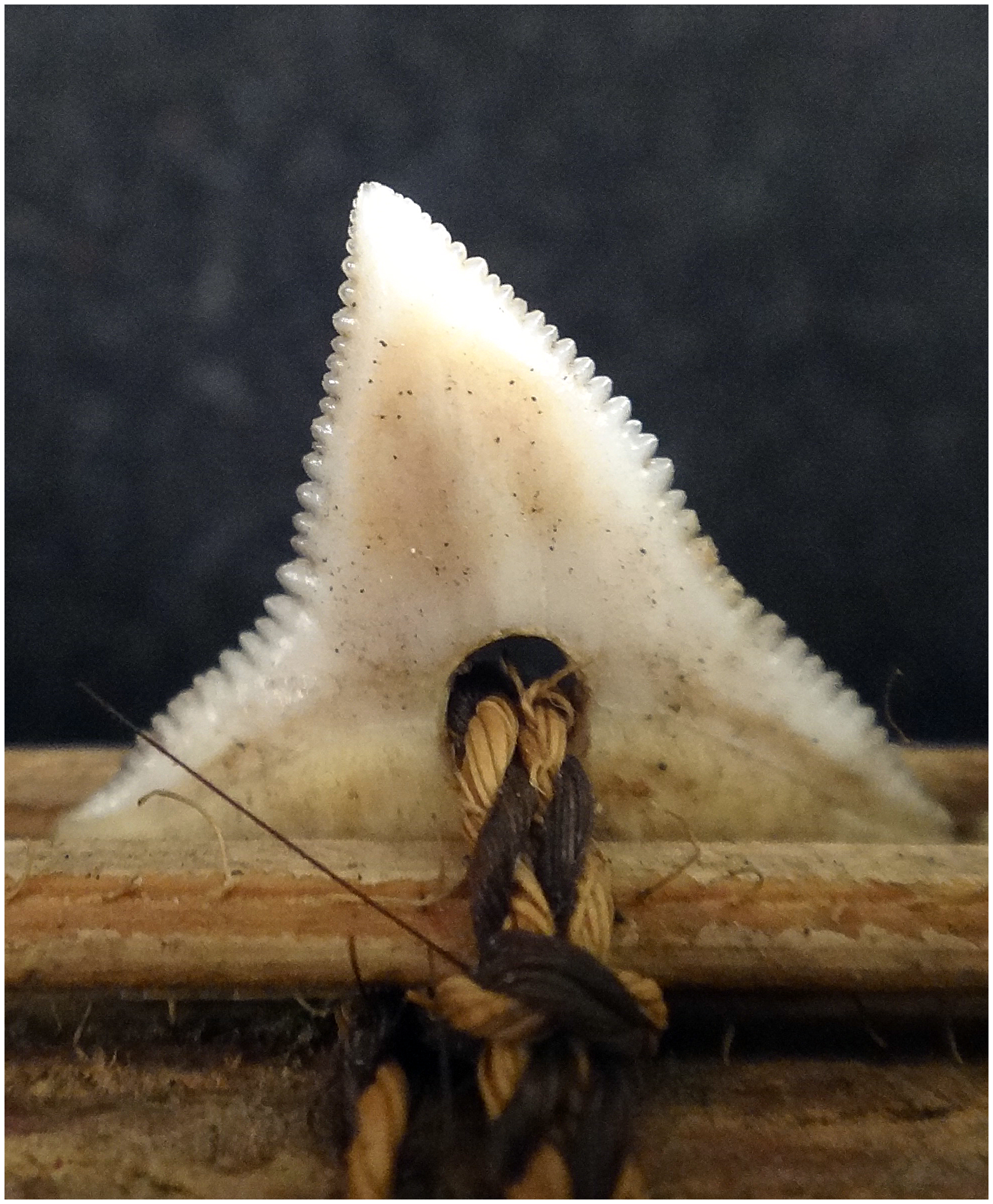 Close up of one tooth of a Gilbertese shark tooth weapon (FMNH 99071) showing how the teeth of Carcharhinus obscurus were attached using braded cord (